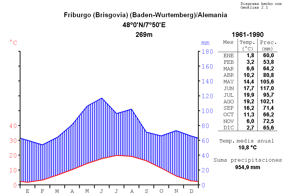 climate chart of Freiburg im Breisgau, Baden-Württemberg, Germany, for the period of time from 1961 to 1990, in the format by Walter and Lieth, metric, °Celsius and millimeters, chart made with Geoklima 2.1, label in German